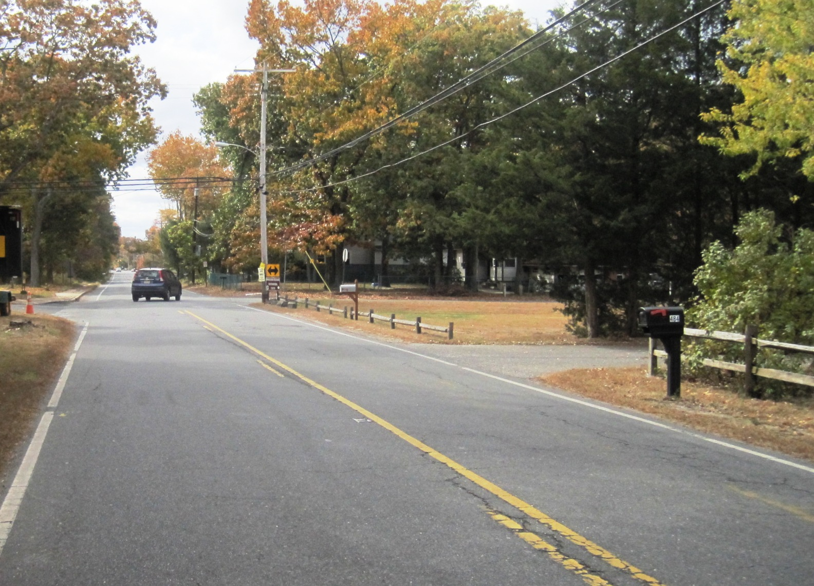 Photo of Freewood Acres, New Jersey, an unincorporated community within Howell Township. Photo taken on Georgia Tavern Road looking southwest towards Windeler Road.